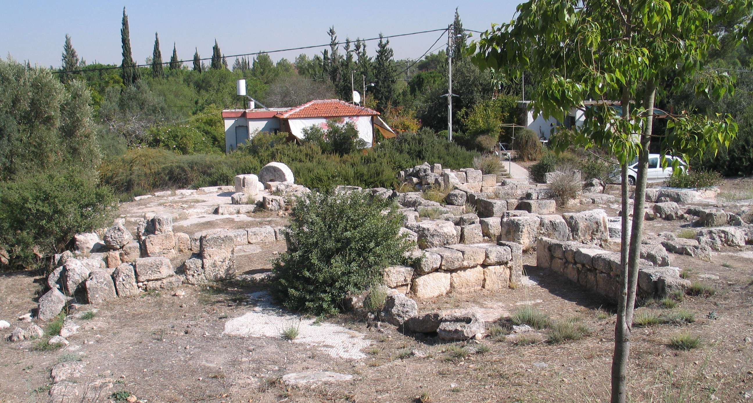 Ruins of Byzantine monastery in Mevo Modiim, Israel.